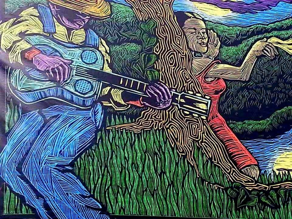 Waterfront Blues Festival Poster